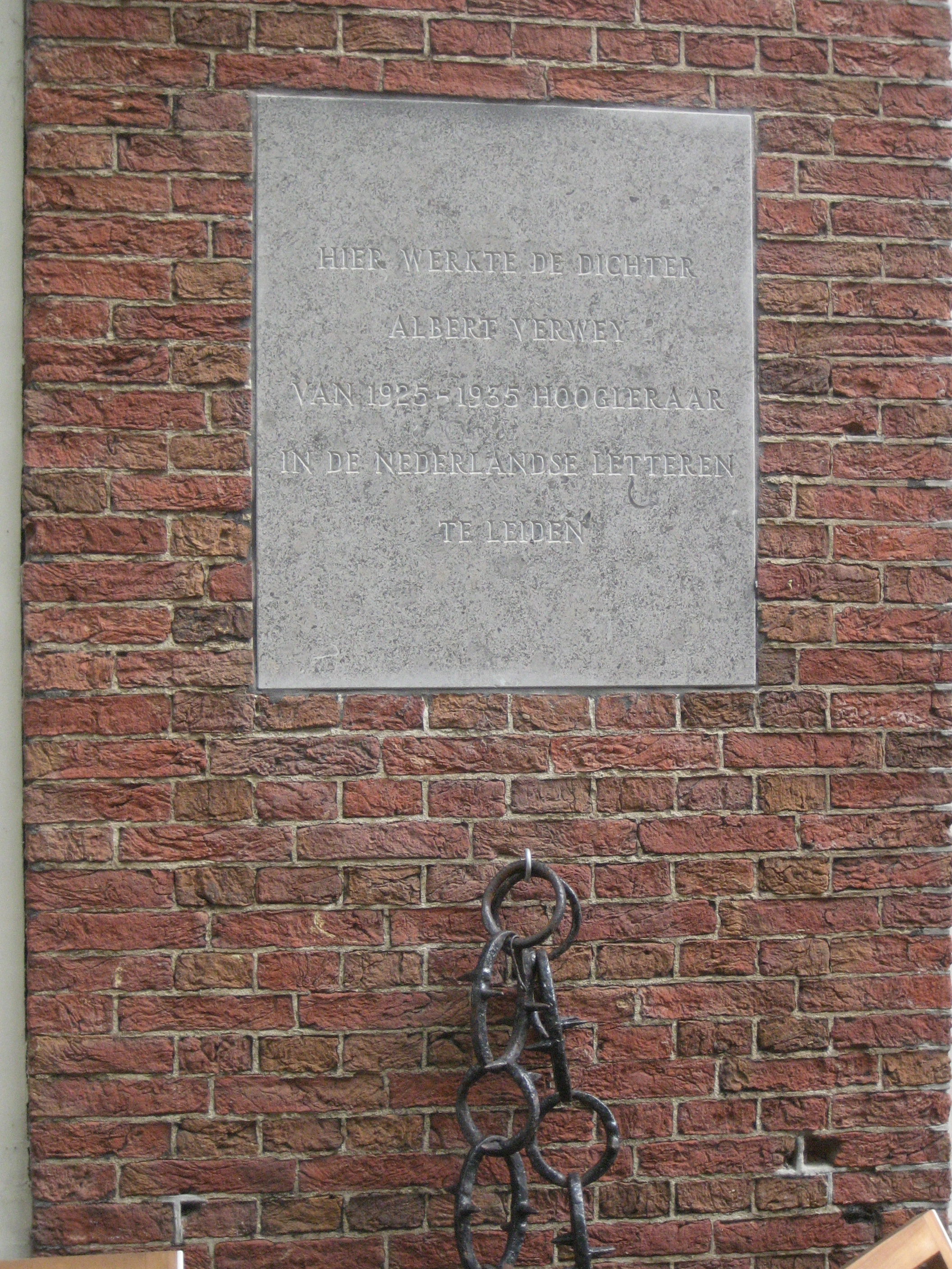 Memorial stone at Kloksteeg 16, Leiden (The Netherlands). Dutch poet Albert Verwey worked here as professor at Leiden University, 1925-1935